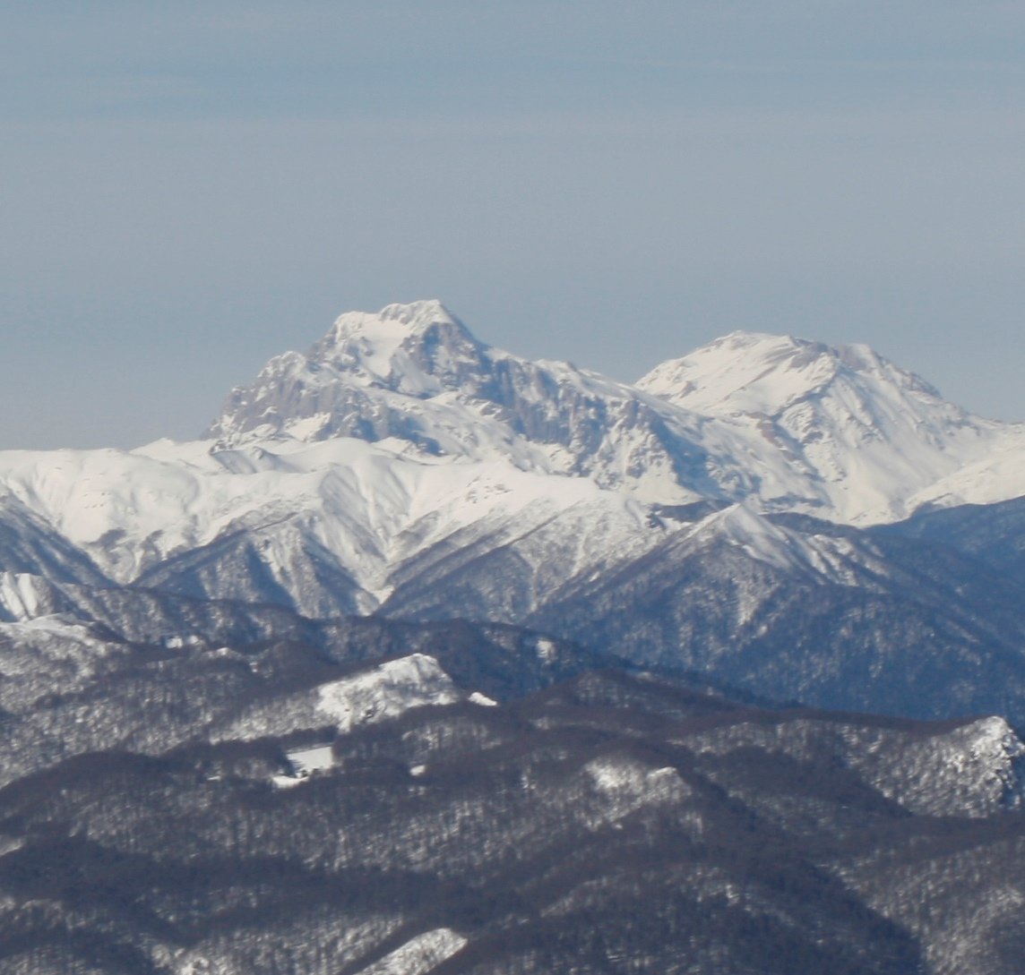 Mountain Fischt (left) winter